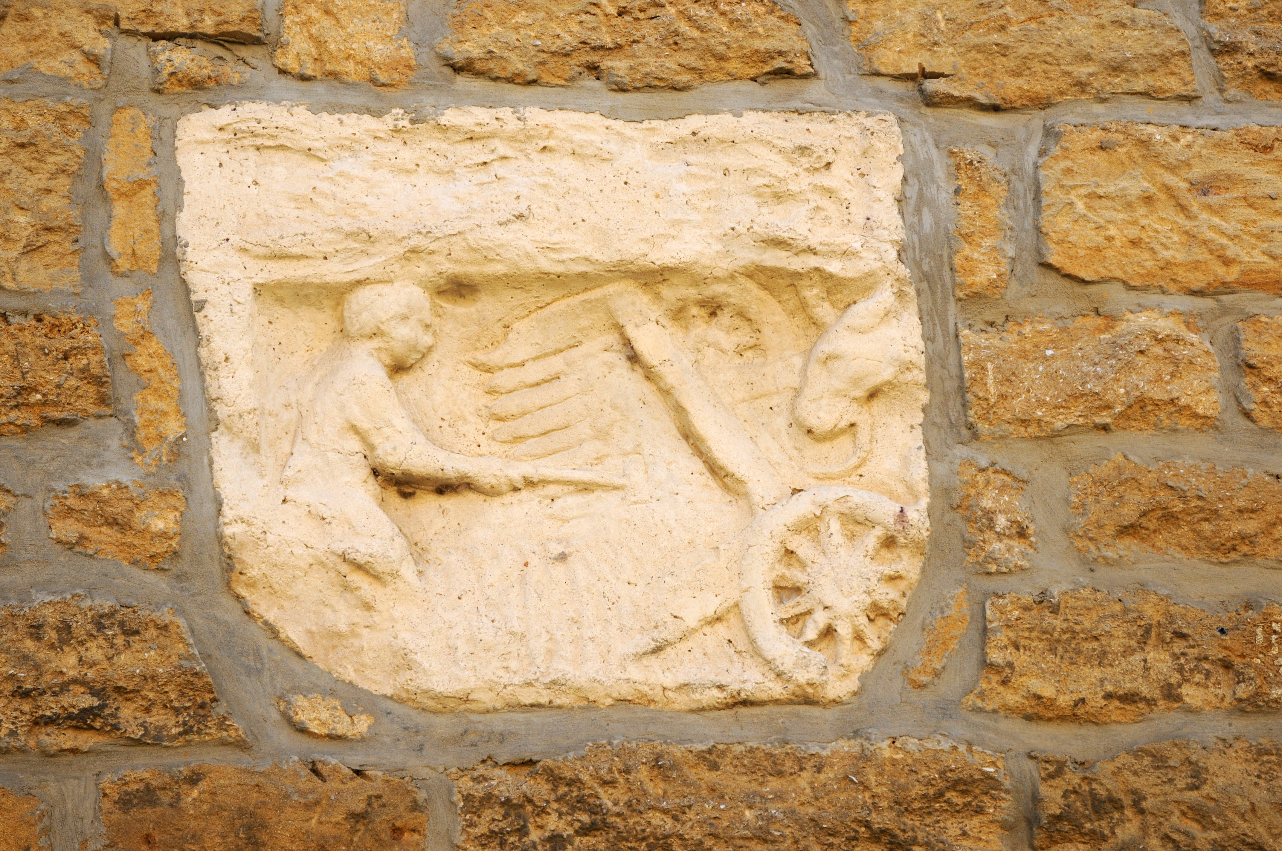 Location: rue Escofiette in Torgny. Facsimile of a Gallo-Roman relief representing a reaper as described by Pliny the Elder[1]. The orginal was found at the camp of Buzenol, nearby Étalle and is now exhibited in the Musée Gaspar in Arlon ↑ CHAP. 72. (30.)—The Harvest